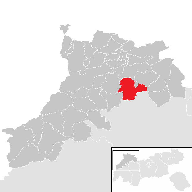 District Reutte